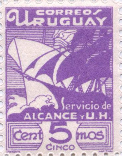 Uruguay - 1936 - too late fee